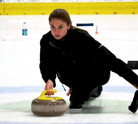 Jamie Sinclair at the Charlotte Centre Curling Club, Charlotte North Carolina, August 2012.